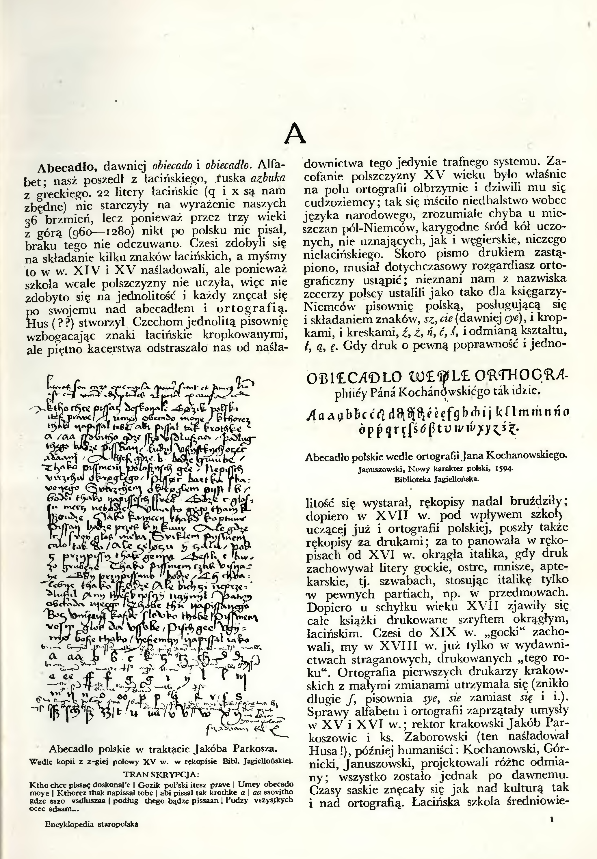 Encyklopedia staropolska Brückner litera A